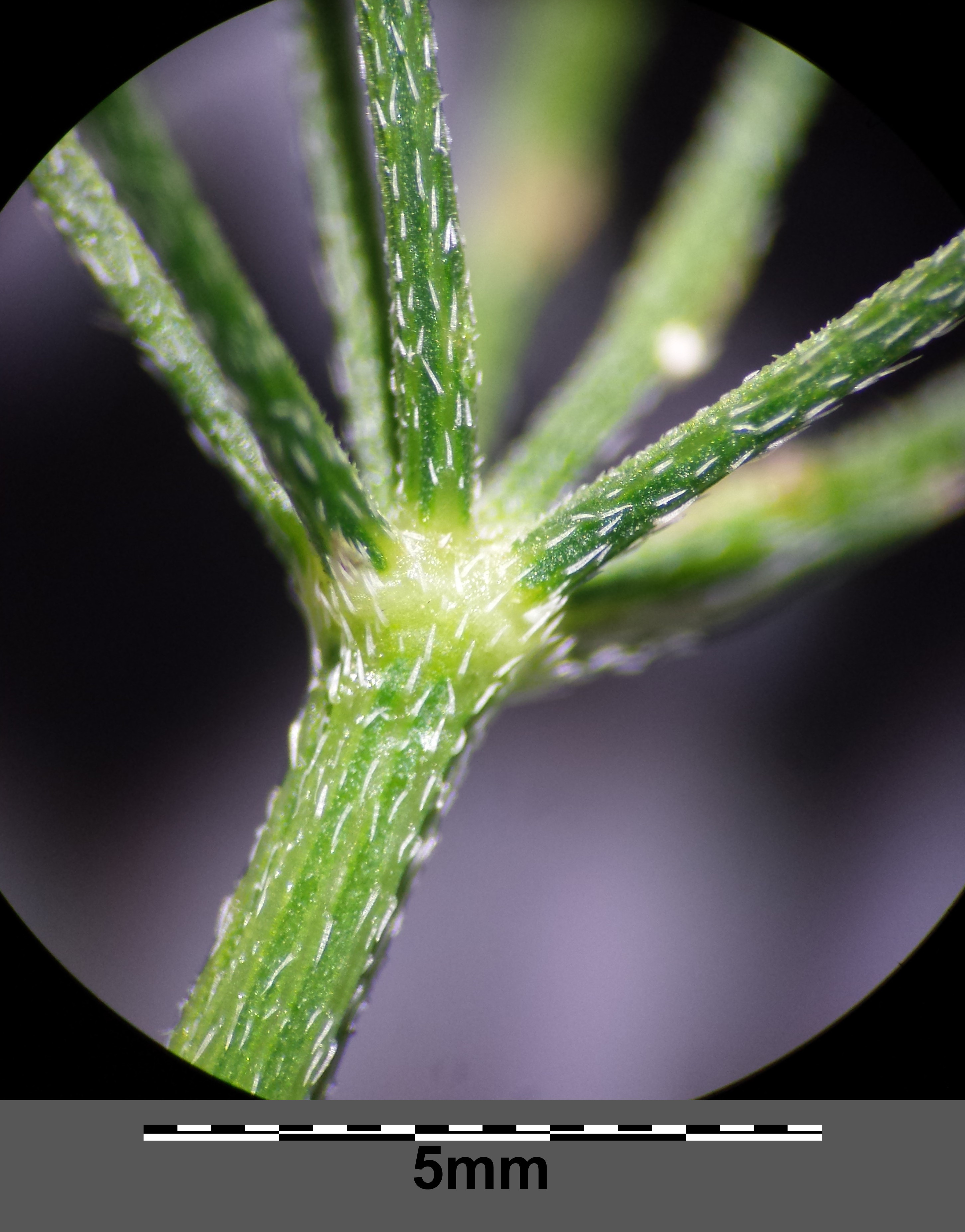 Stipe with rays of umbel Taxonym: Torilis arvensis ss Fischer et al. EfÖLS 2008 ISBN 978-3-85474-187-9 Location: Drygalskiweg, Vienna-Donaustadt - ca. 160 m a.s.l. Habitat: dry slope